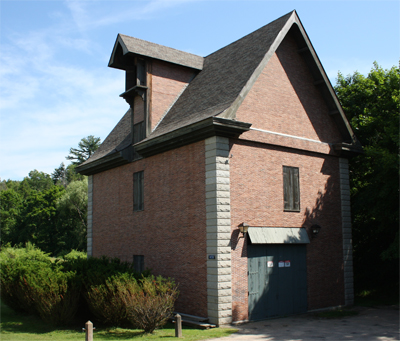 The photo, taken July 6, 2014, shows the Lequille hydro-electric station near Annapolis Royal NS. Commissioned in 1968, the structure was built on the site of, and as a replica of, a 17th century grist mill.